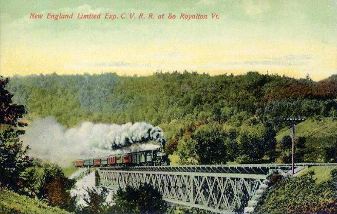 The New England Limited Express of the Central Vermont Railway at South Royalton, Vermont; from a 1909 postcard. The train is shown crossing the White River on Bridge No. 20, 600 feet in length, comprising 4 spans of 144 feet, 2 inches each.